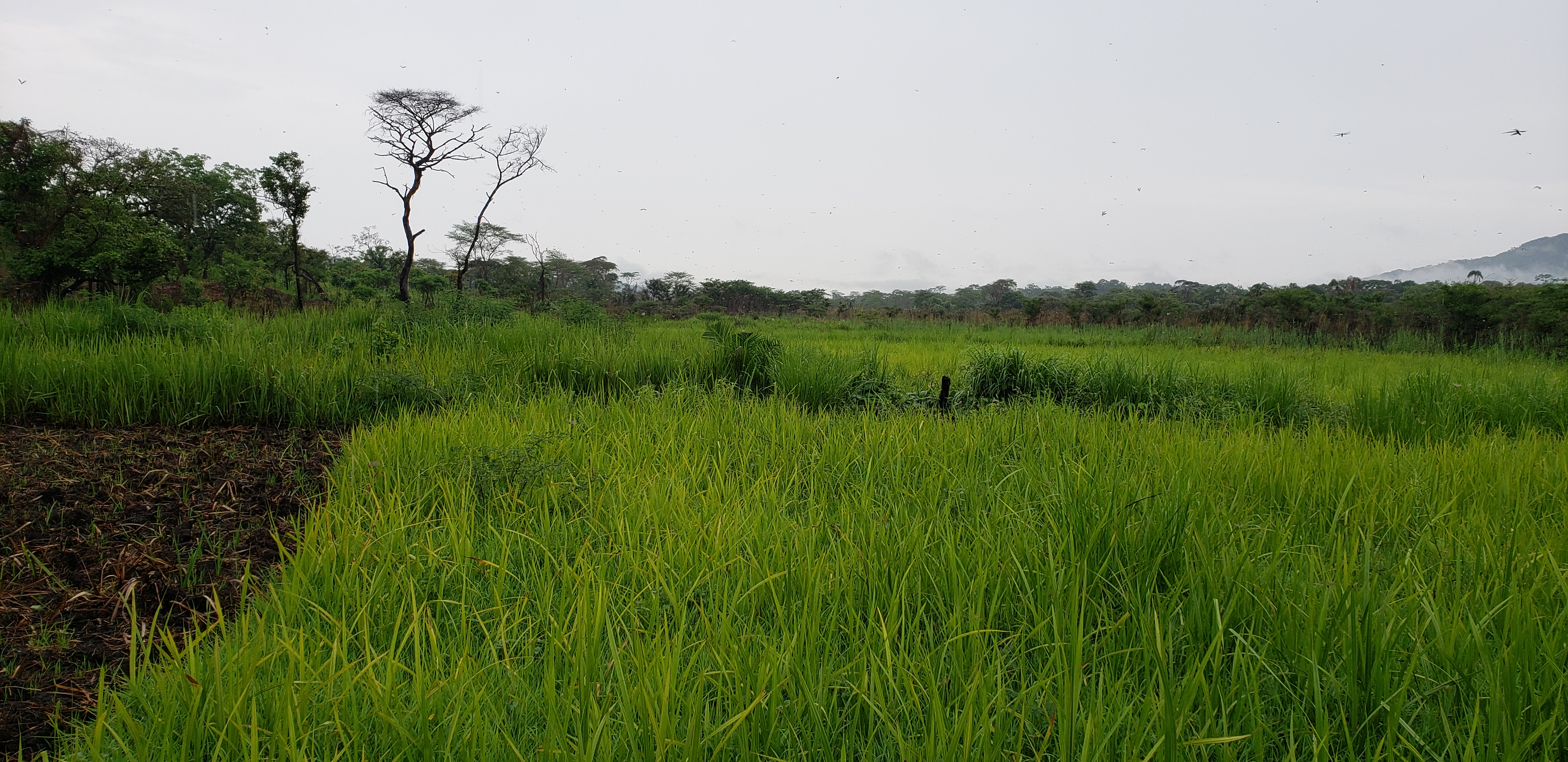 This is an image with the theme "Africa on the Move or Transport" from: Democratic Republic of the Congo